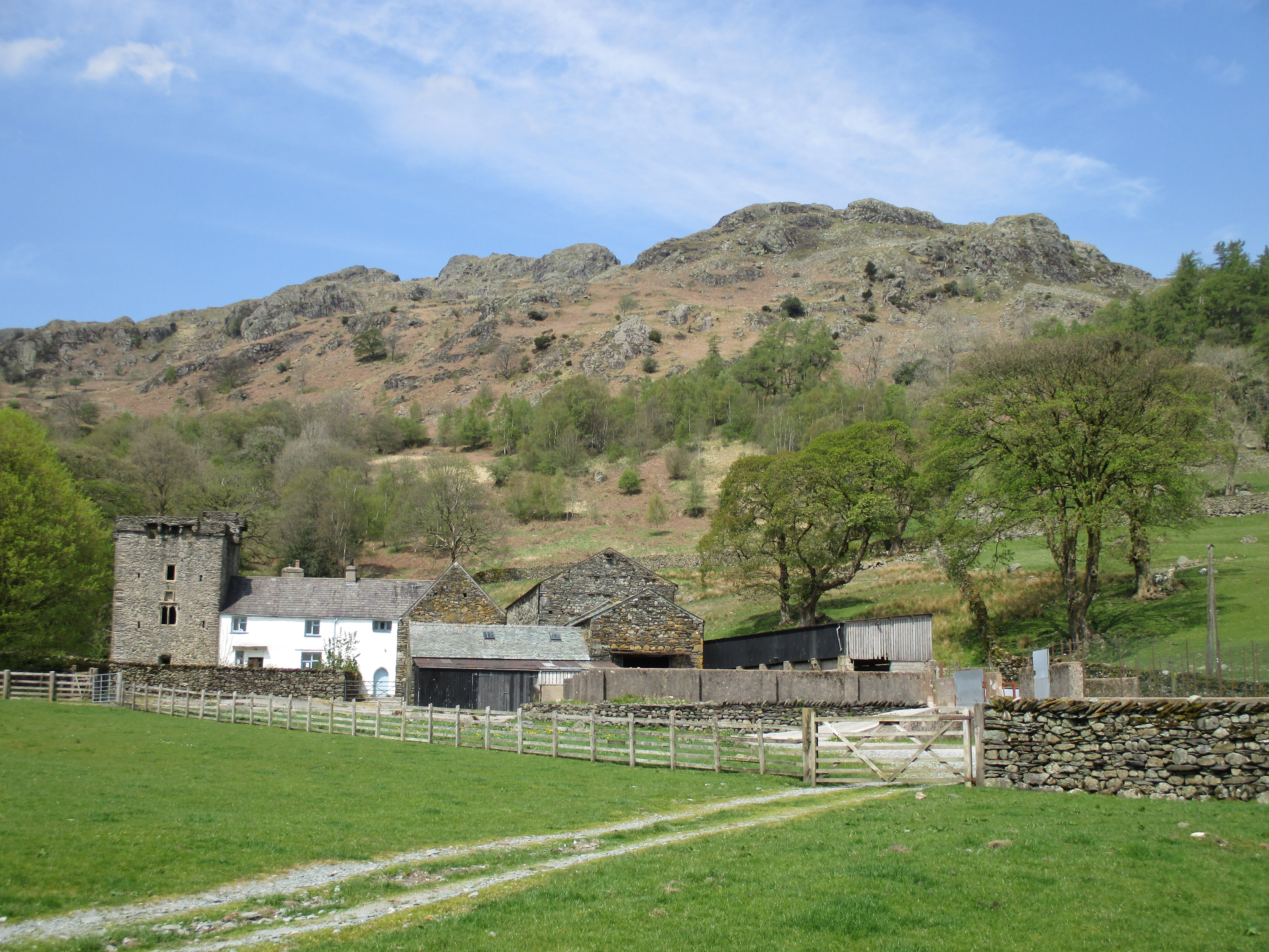 Kentmere Hall, beneath Castle Crag, in Kentmere, Cumbria; seen from the south-east.